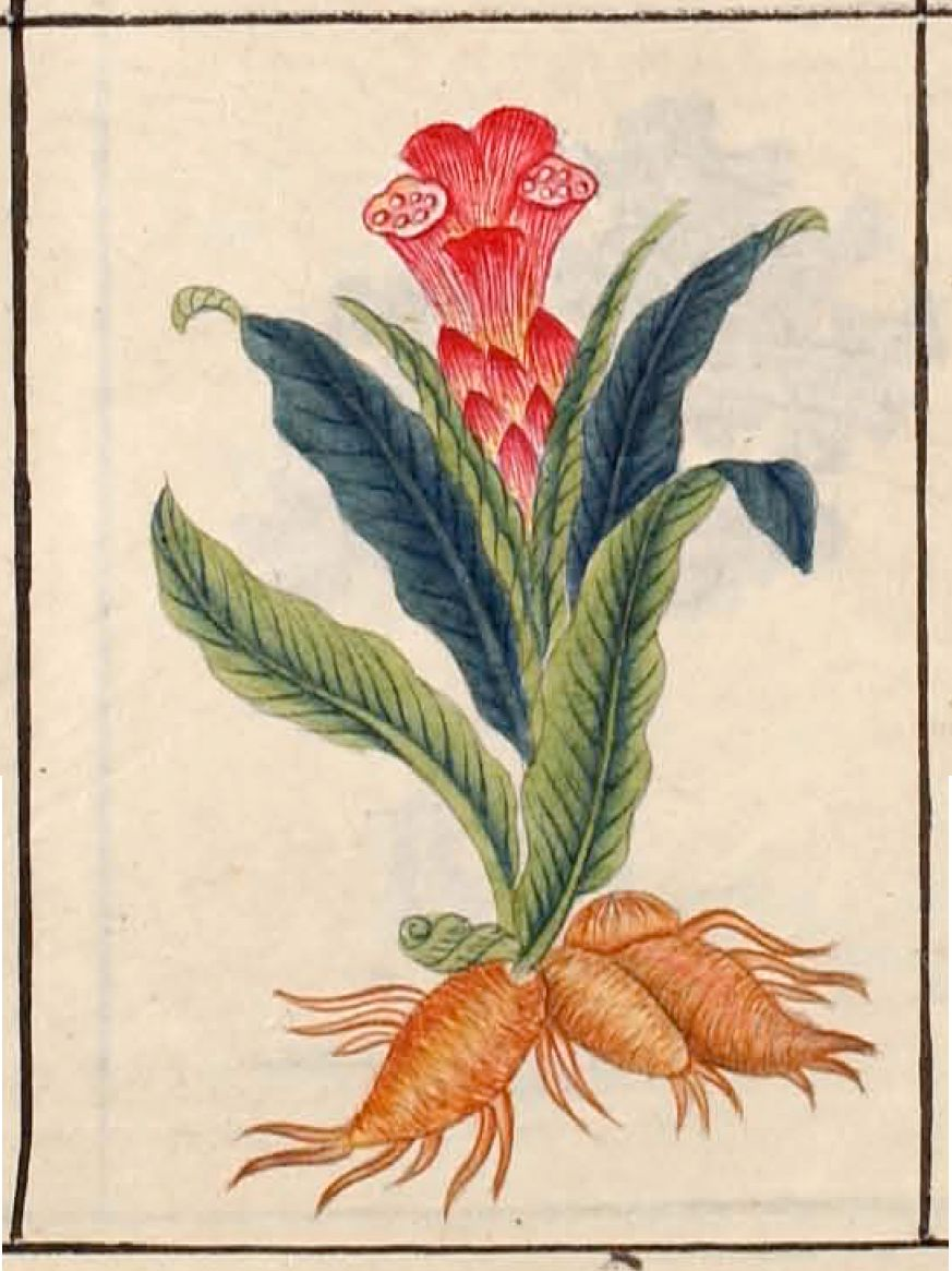 Illustration from "Account of 814 Plants & Insects, Most of Which Are Reckoned Medicinal by the Chinese"- Copy based on the "Bencao Gangmu" of Li Shizhen (1518–1593), a definitive work on Chinese materia medica.